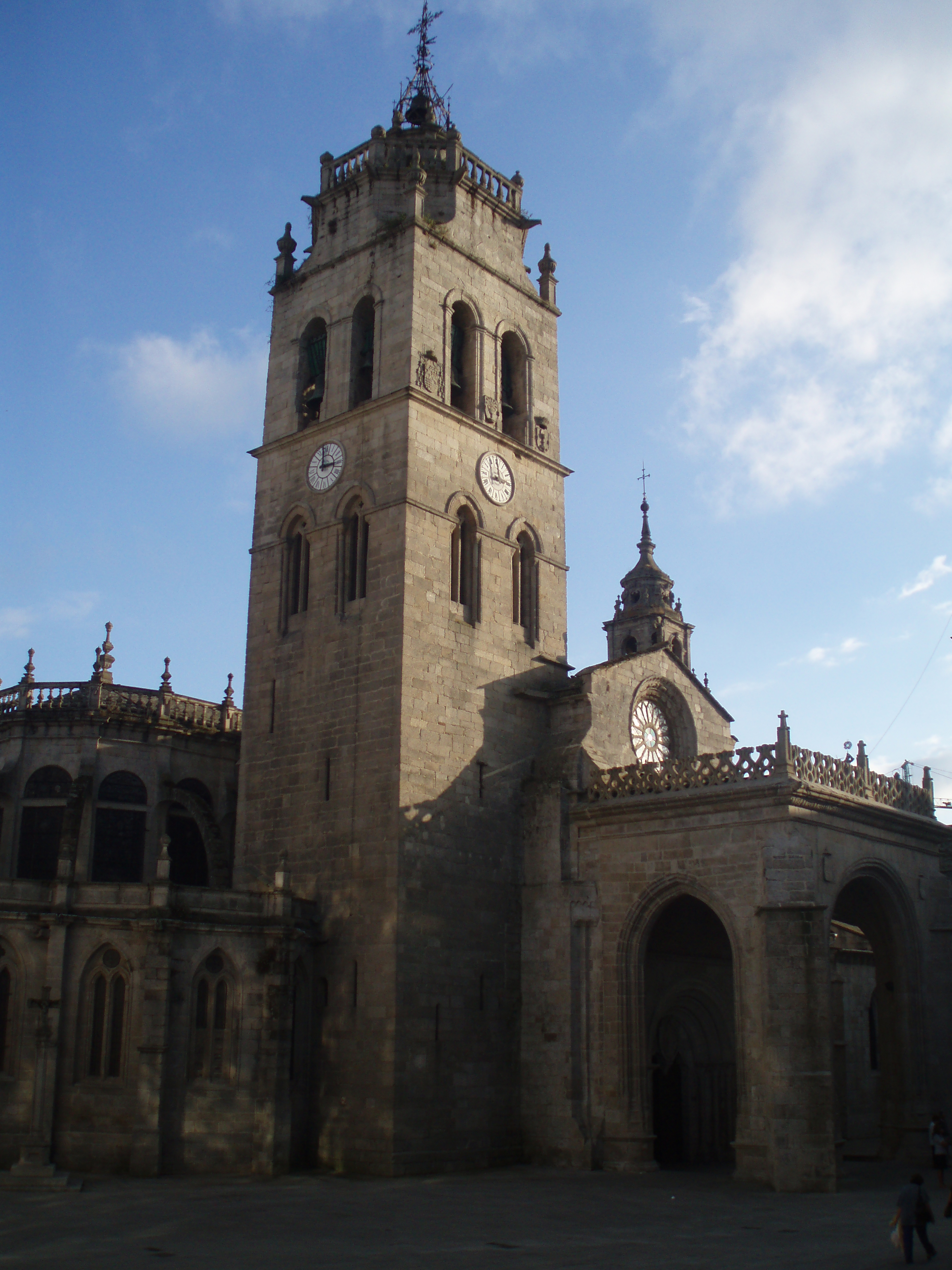 Cathedral of Lugo, in Galicia. (Spain).